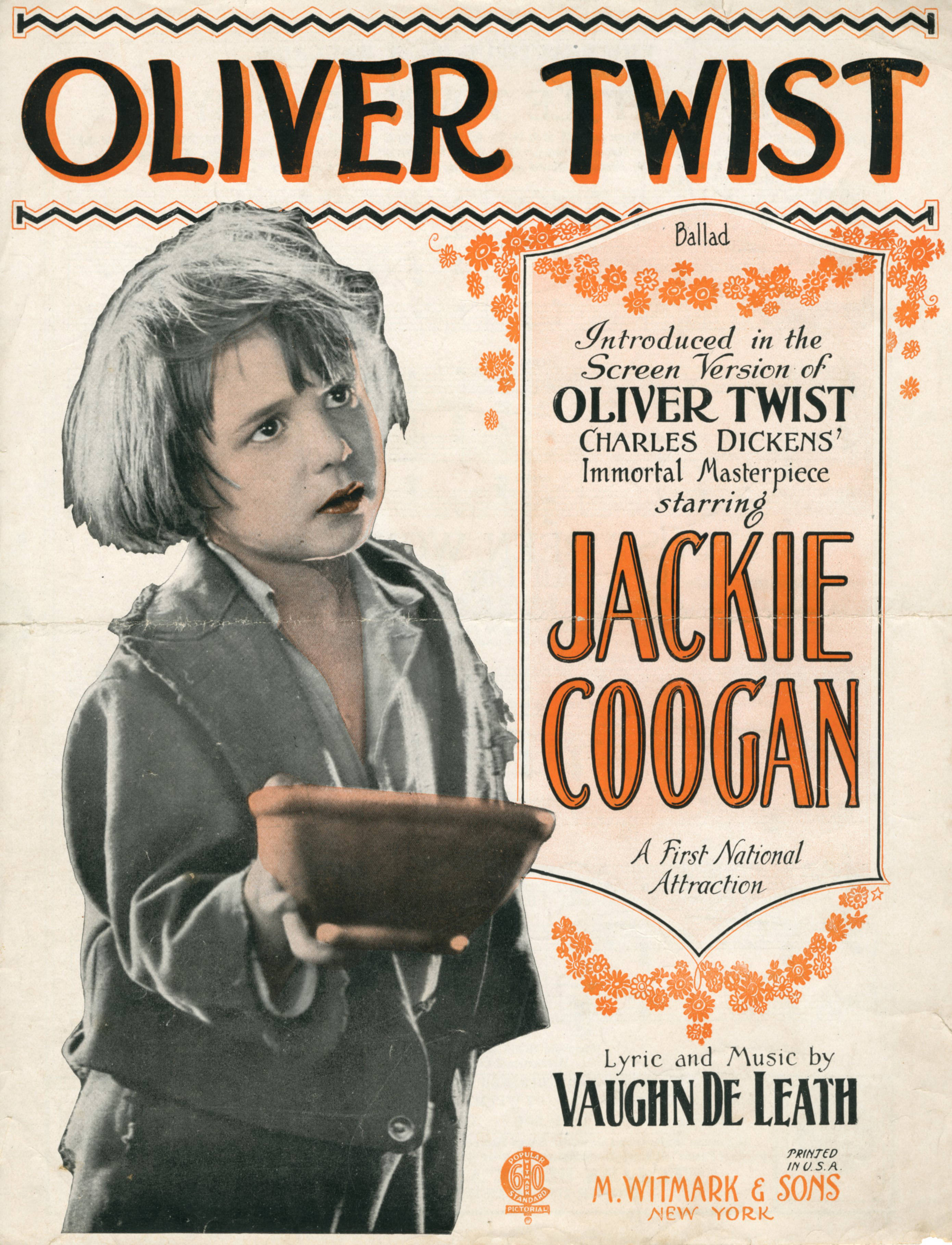 Sheet music cover: "Oliver Twist : Ballad" 1 vocal score (5 p.) ; 31 cm. Illustrated cover with image of Jackie Coogan. Oliver Twist (Motion picture : 1922)